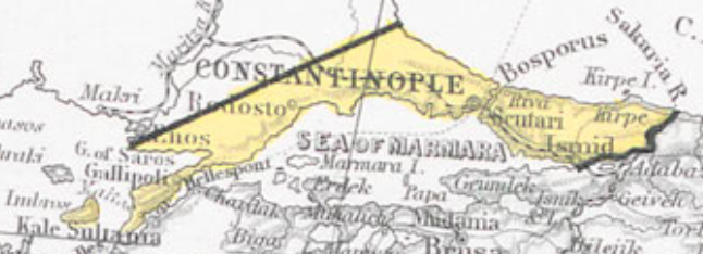 1919 British map ahead of Paris Peace Conference - extract regarding 1915 Constantinople Agreement